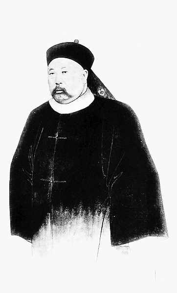 Nie Shicheng(Chinese: 聂士成; pinyin: Niè Shìchéng; Wade–Giles: Nieh Shih-ch'eng) (1836 – July 1900) was a Chinese general who served the Imperial government during the Boxer Rebellion. Rising from obscure origins from Hefei, Anhui Province, in the early 1850s, Nie Shicheng he managed to pass the county examinations for bureaucratic positions, but due to the Taiping rebellion he was forced to abandon bureaucratic career and become a soldier.